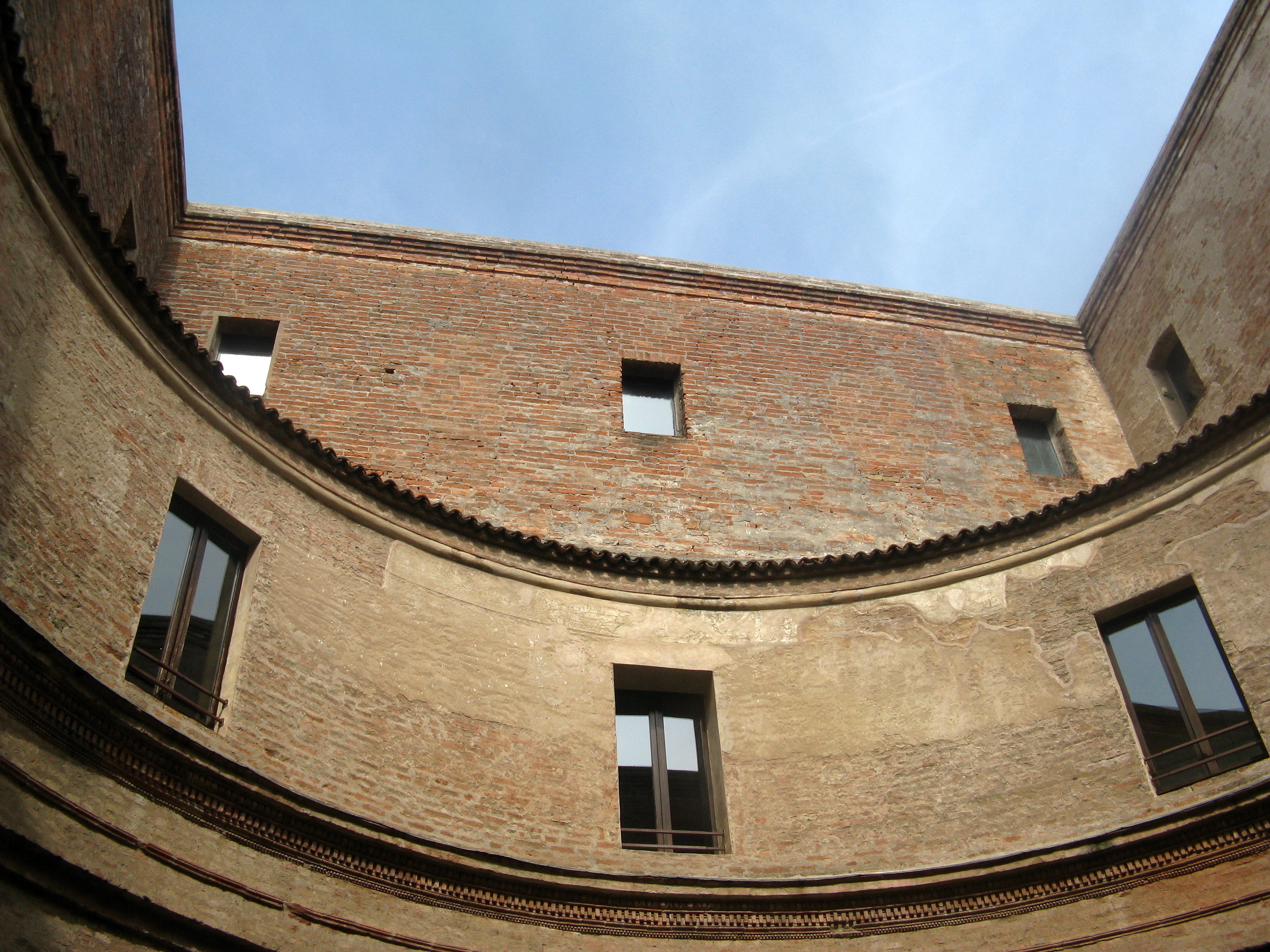 View of the inner court of the Casa del Mantegna (or: Casa Mantegna) in Mantua, Italy